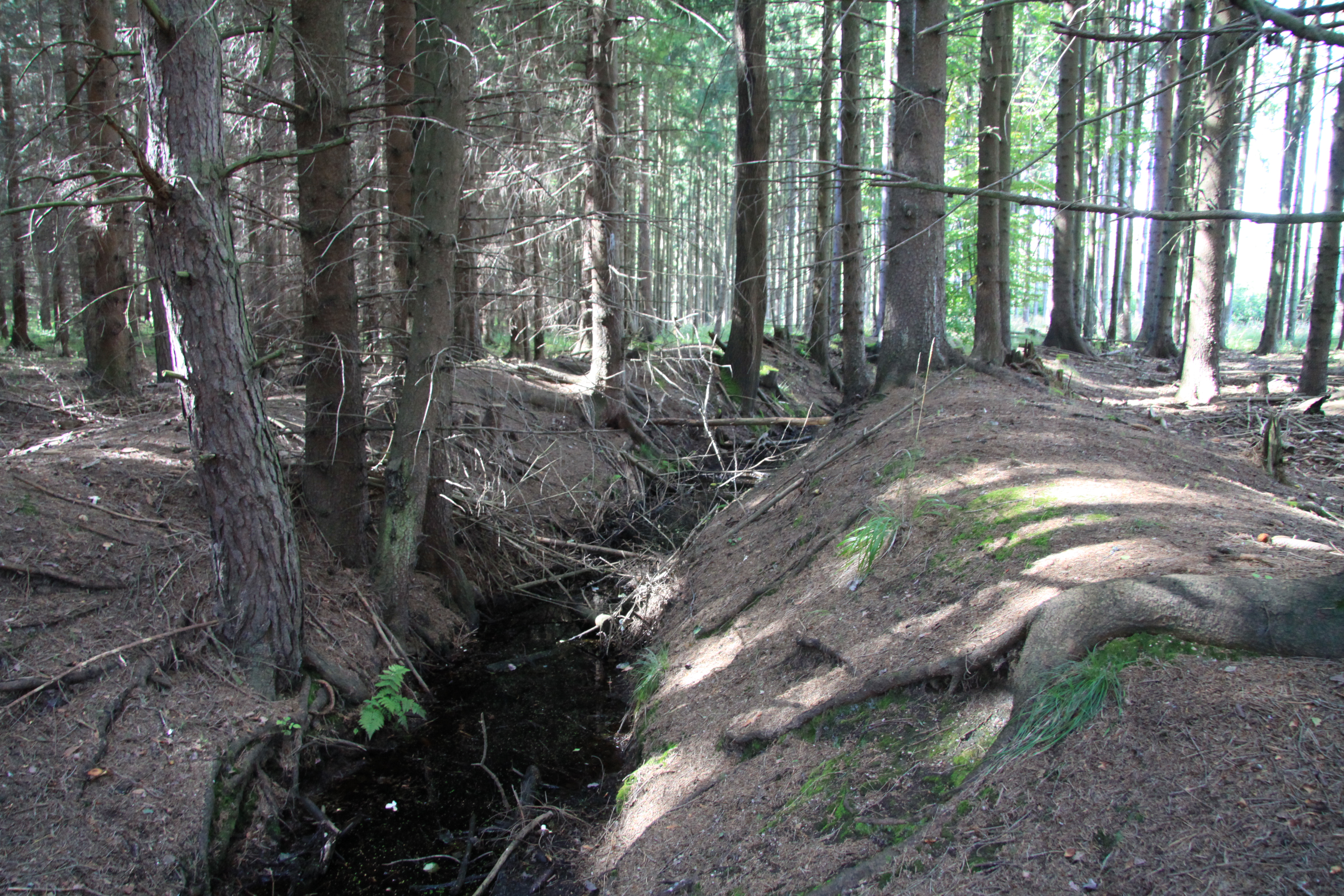 Natural monument Bachmač in Písek District, Czech Republic. This area is protected due to bog